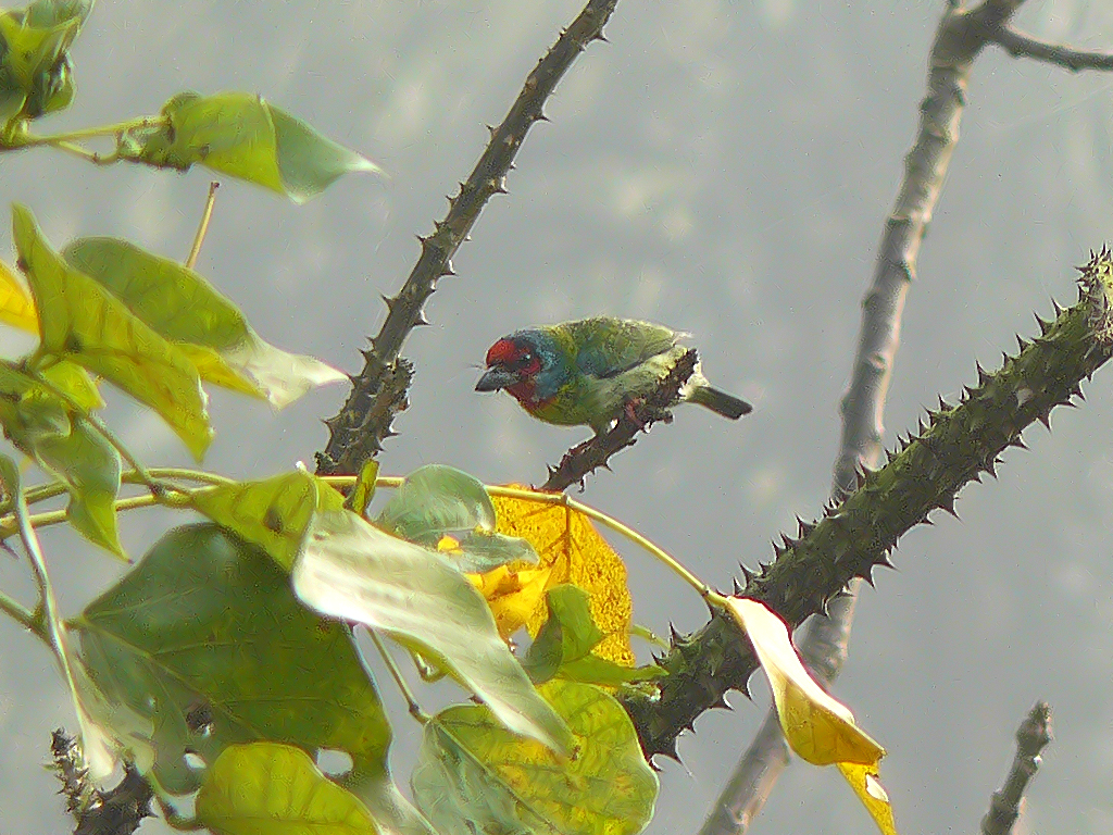 Clicked in the Wayanad Wildlife Sanctuary. The Malabar Barbet (megalaima malabarica) is a small barbet found in the Western Ghats of India. It was formerly treated as a race of the Crimson-fronted Barbet. This species can be told apart from the Coppersmith Barbet by the crimson face and throat. My very first shots of this not so common bird.